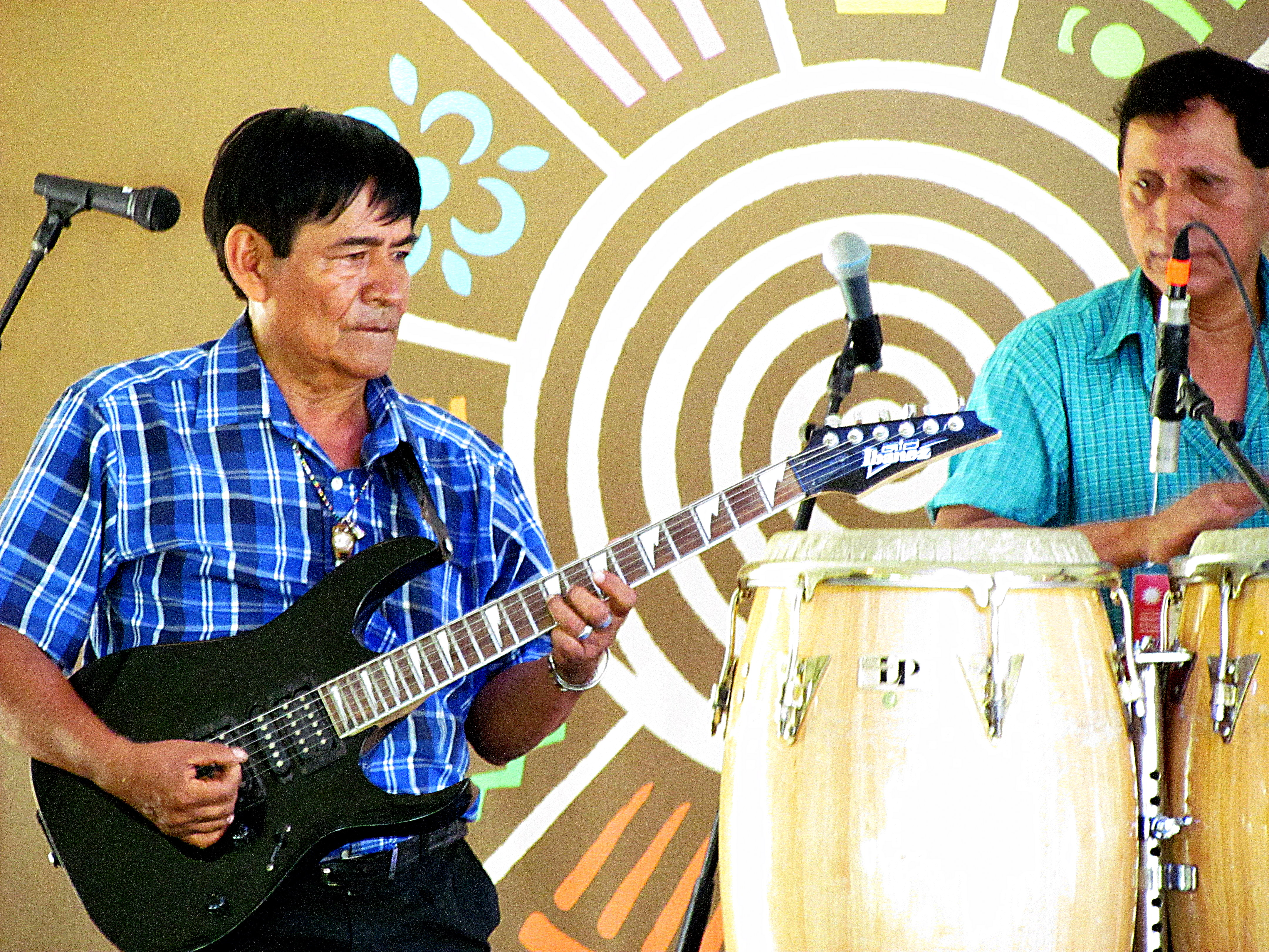 2015 Smithsonian Folklife Festival featuring Peru Los Wembler's de Iquitos en el Folk Festival de Washington